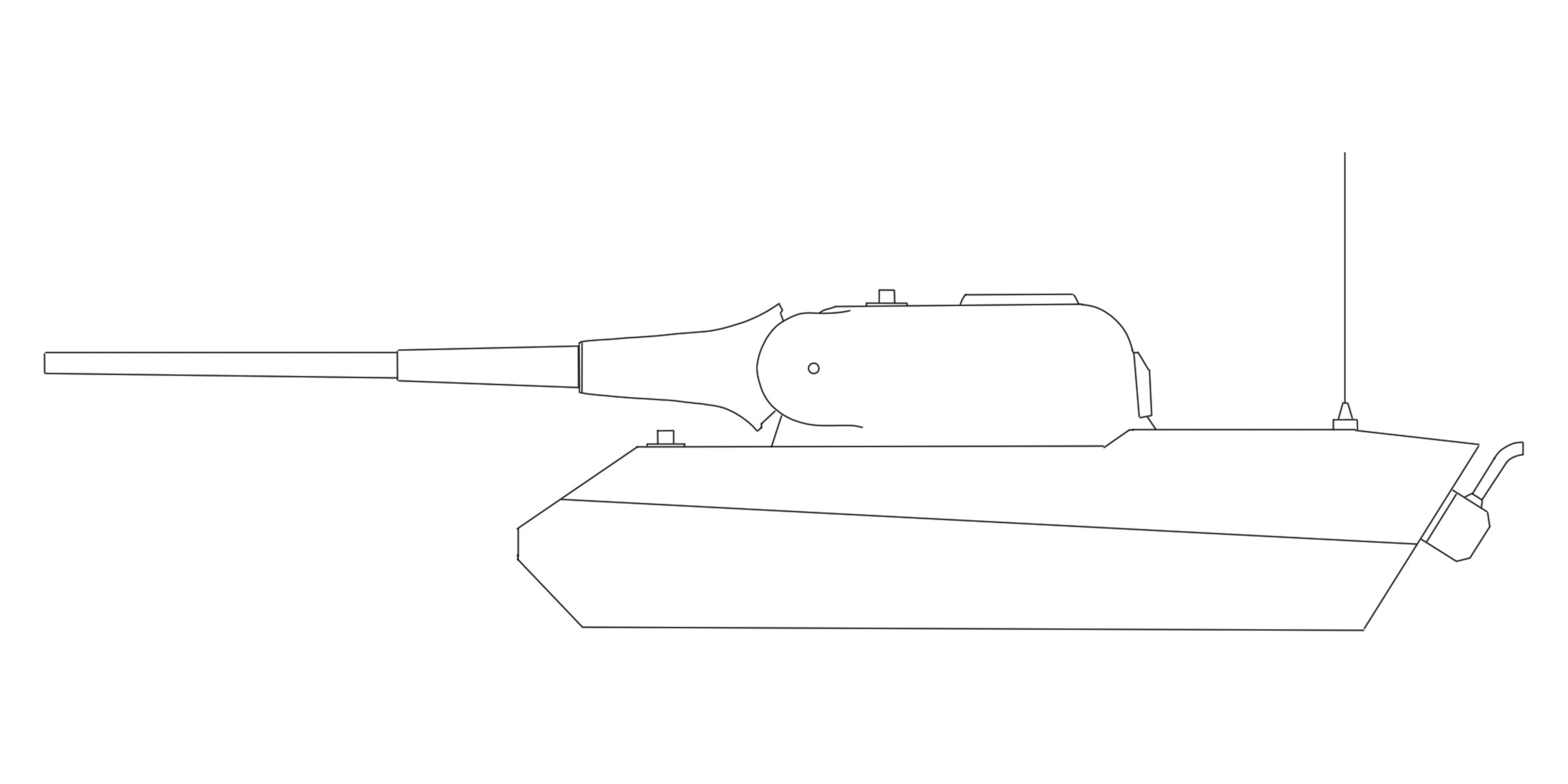 Löwe design